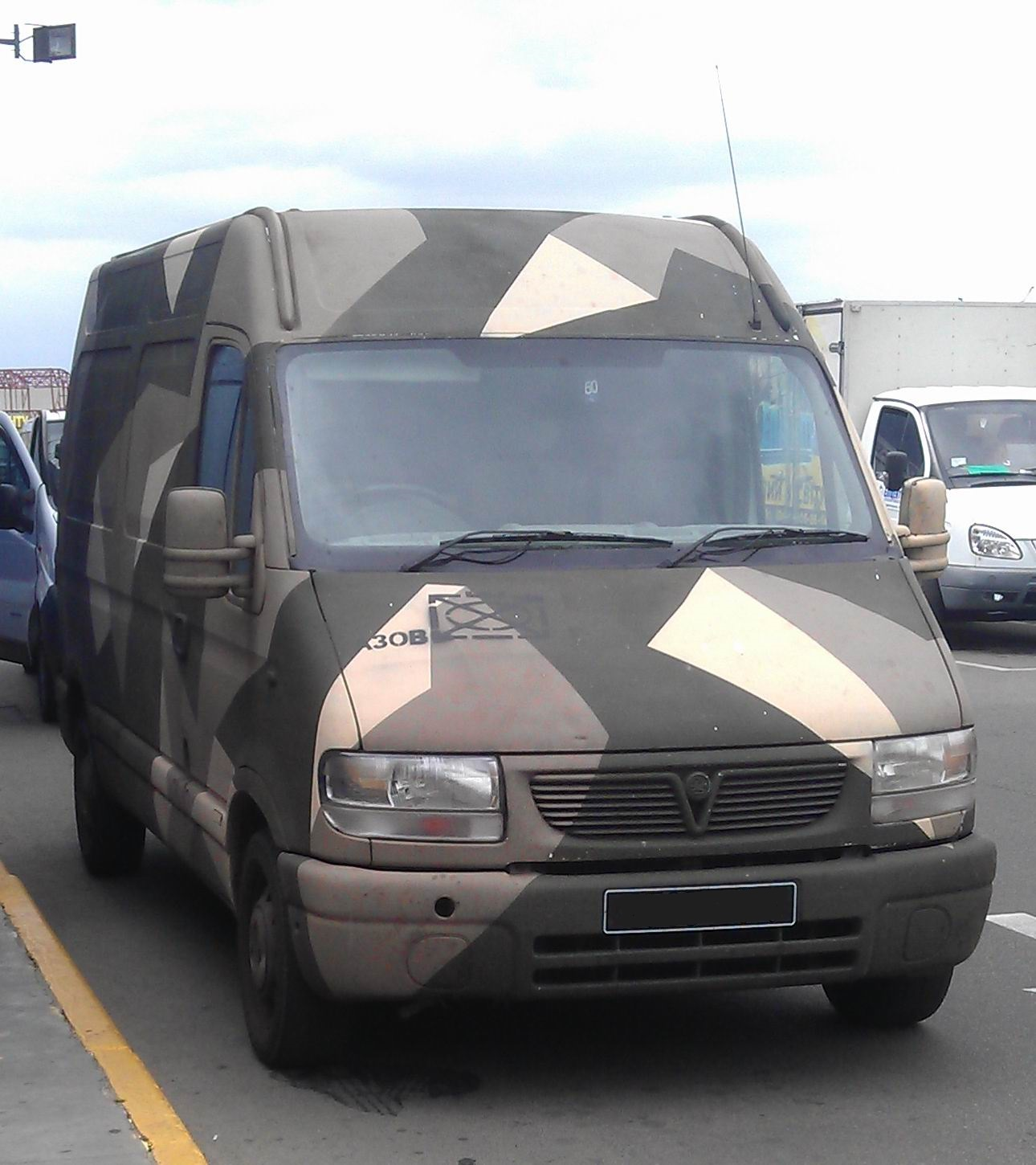 Vauxhall Movano, Azov regiment, National Guard of Ukraine, 2015